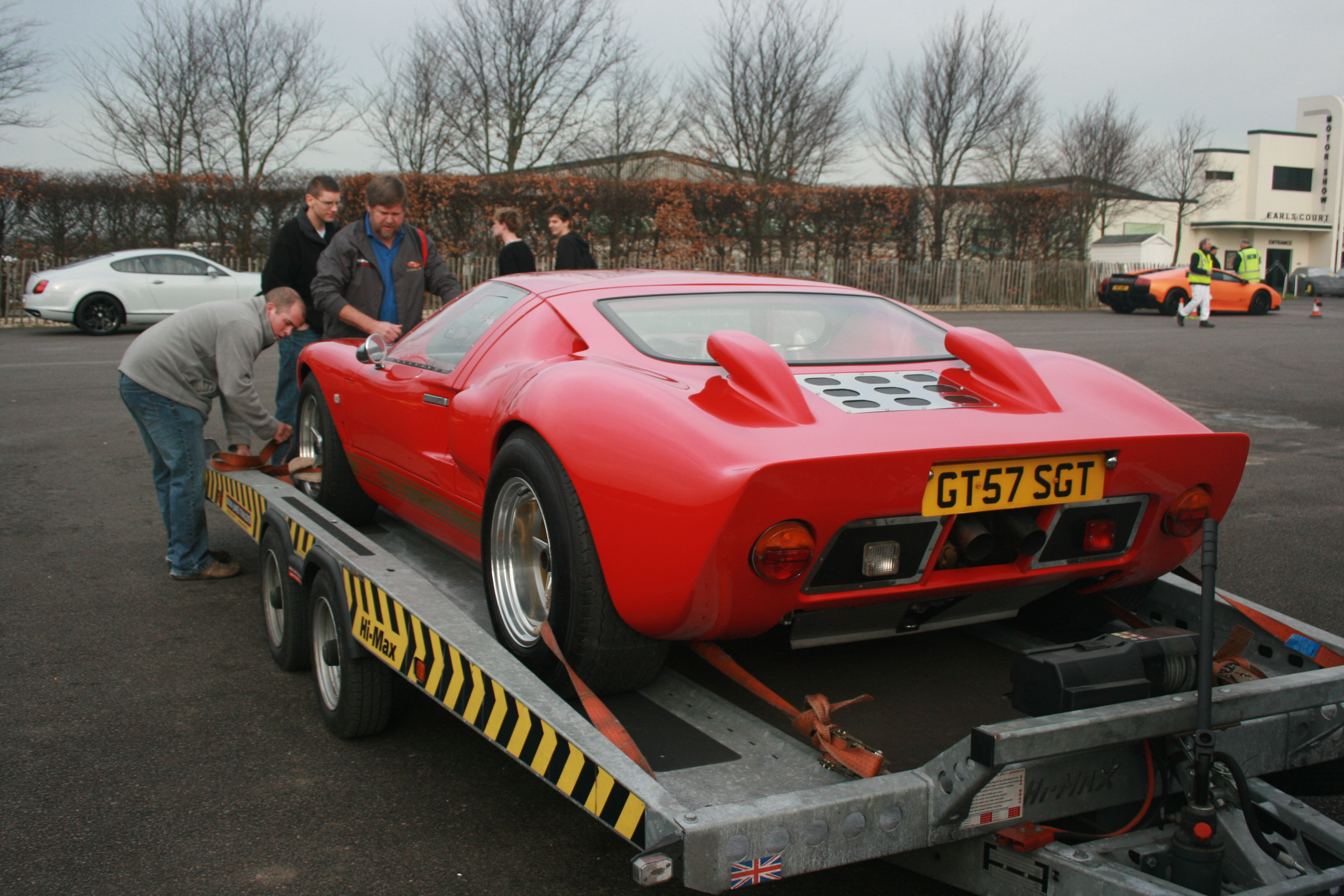 Ford GT40 Replica